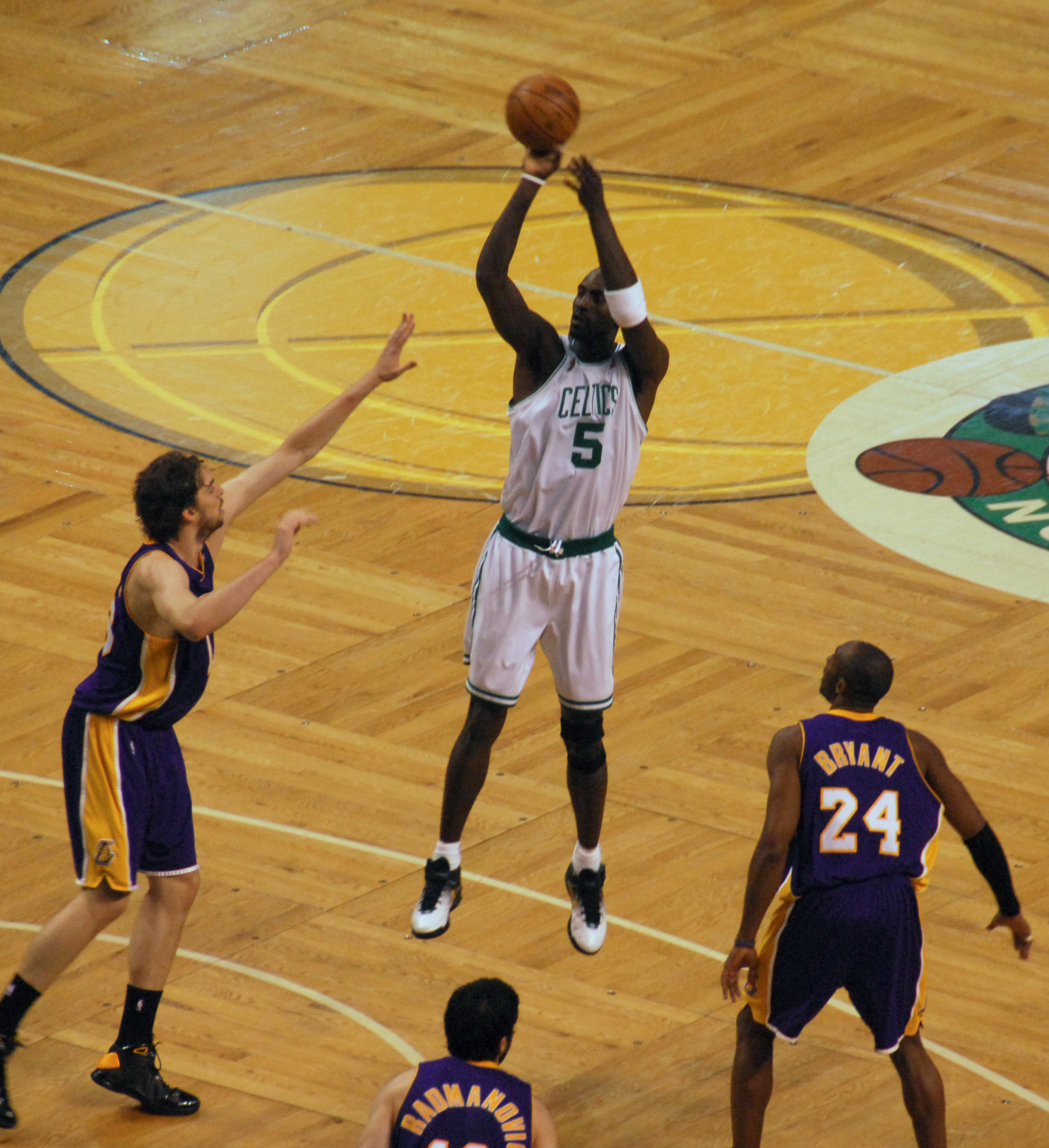 Boston Celtics forward Kevin Garnett shoots over Los Angeles Lakers center Pau Gasol as Gasol's teammates Kobe Bryant and Vladamir Radmanovic look on in Game 2 of the 2008 NBA Finals.